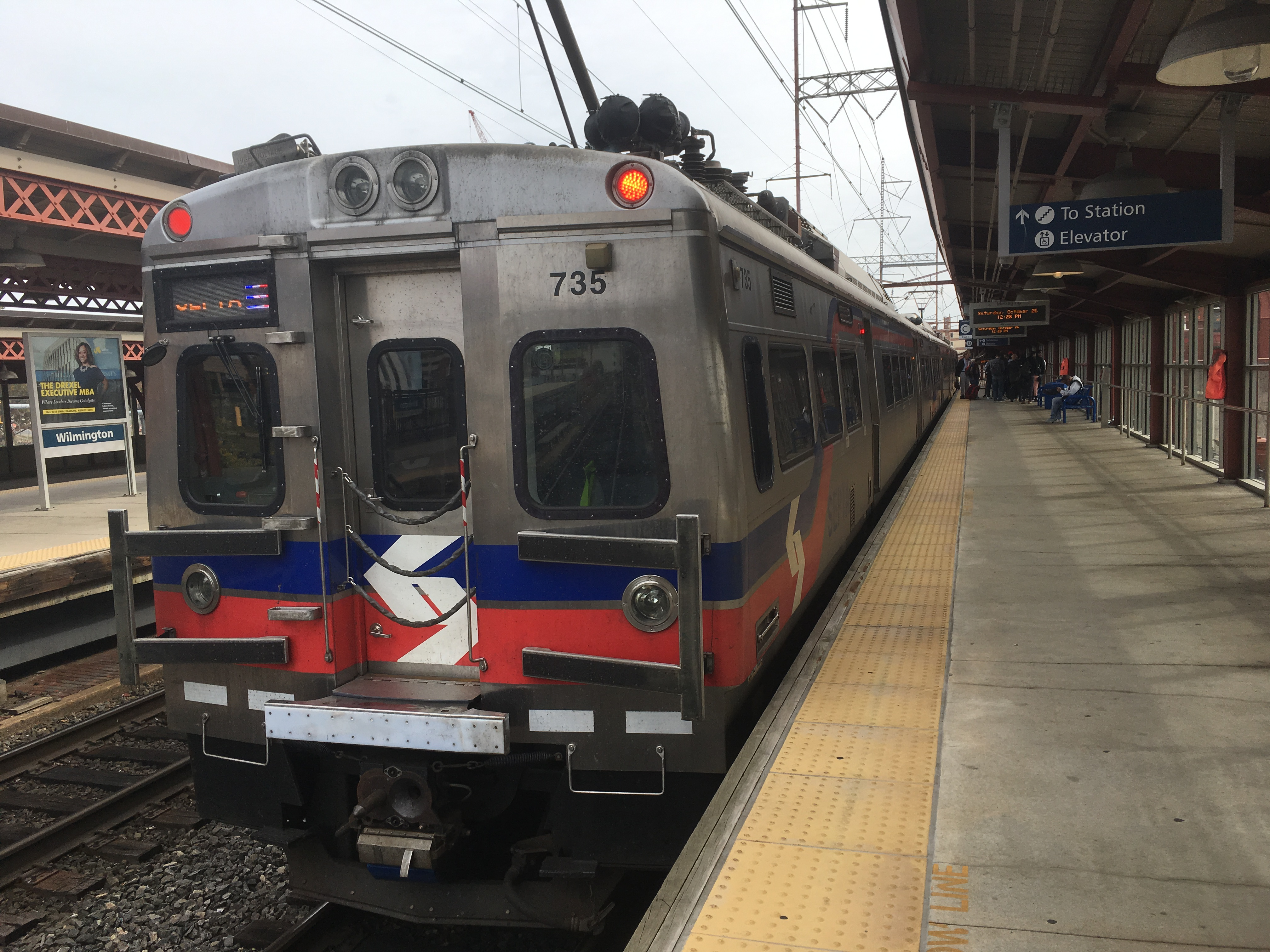 SEPTA Silverliner V 735 on a Wilmington/Newark Line train at Wilmington Station in Wilmington, Delaware